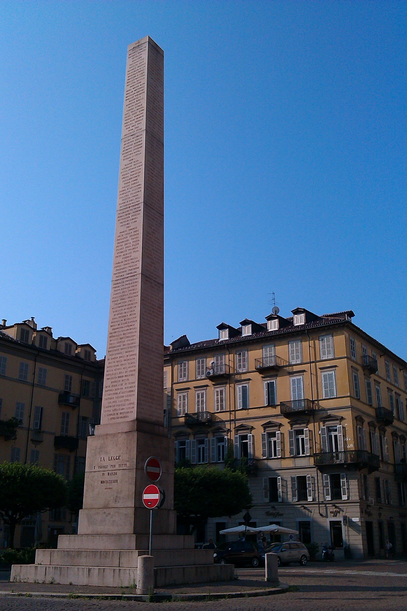 Luigi Quarenghi, Obelisk celebrating the Siccardi law, 1853. Turin (Italy), Savoy square.